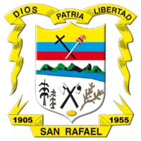 seal of San Rafael Antioquia